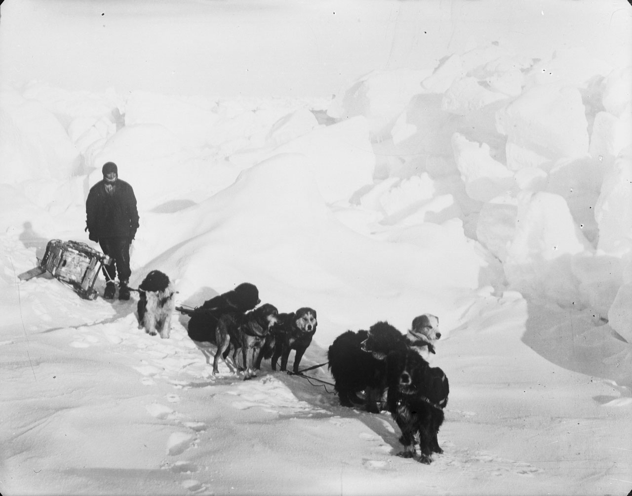 Reproduction ID: P00014 Maker: James Francis Hurley Date: July - October 1915 Materials: Gelatine dry plate Henley Collection